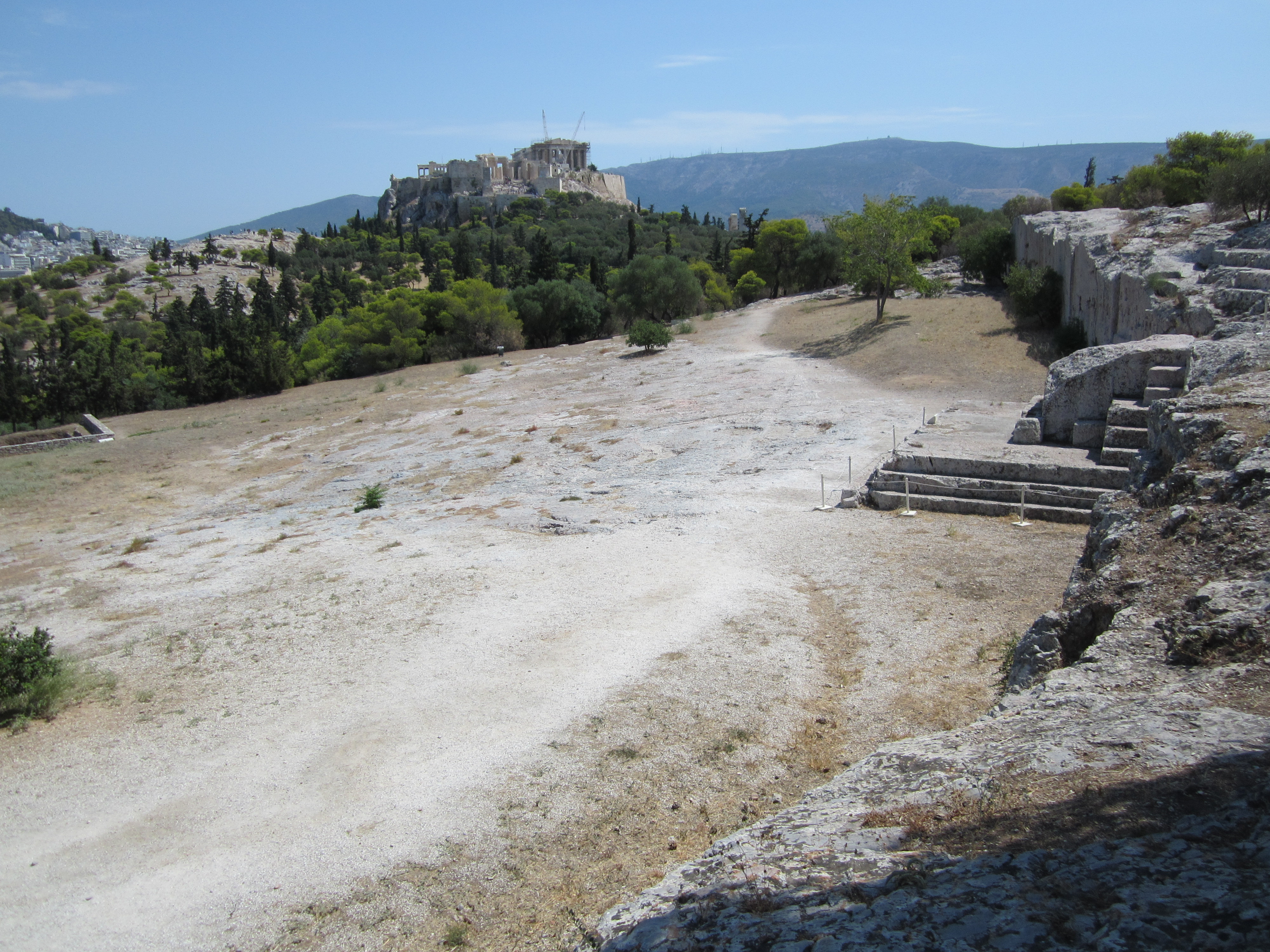 Pnyx, Athens, Greece.